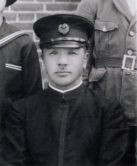 中松乙彥, an officer in the Japanese-ruled Taiwan notice that the romanization of the name is just a "reverse-transliteration" from Kanji, it may have alternative readings source: [1]